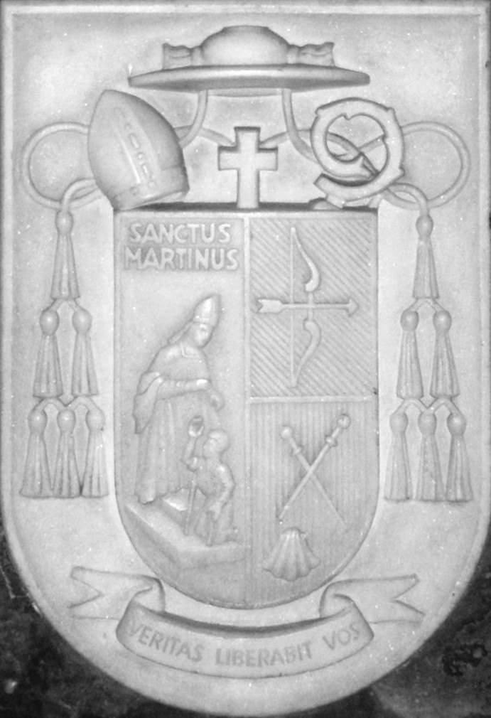 Coat of arms of Josef Schoiswohl, apostolic administrator of Burgenland/Eisenstadt, Austria (1949-1954), bishop of Graz-Seckau, Austria (1954 - 1968). High altar ballustrade in St. Stephen's Cathedral, Vienna. Version used in Burgenland/Eisenstadt.